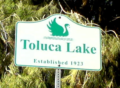 Signage: Toluca Lake, Los Angeles, California (est. 1923)